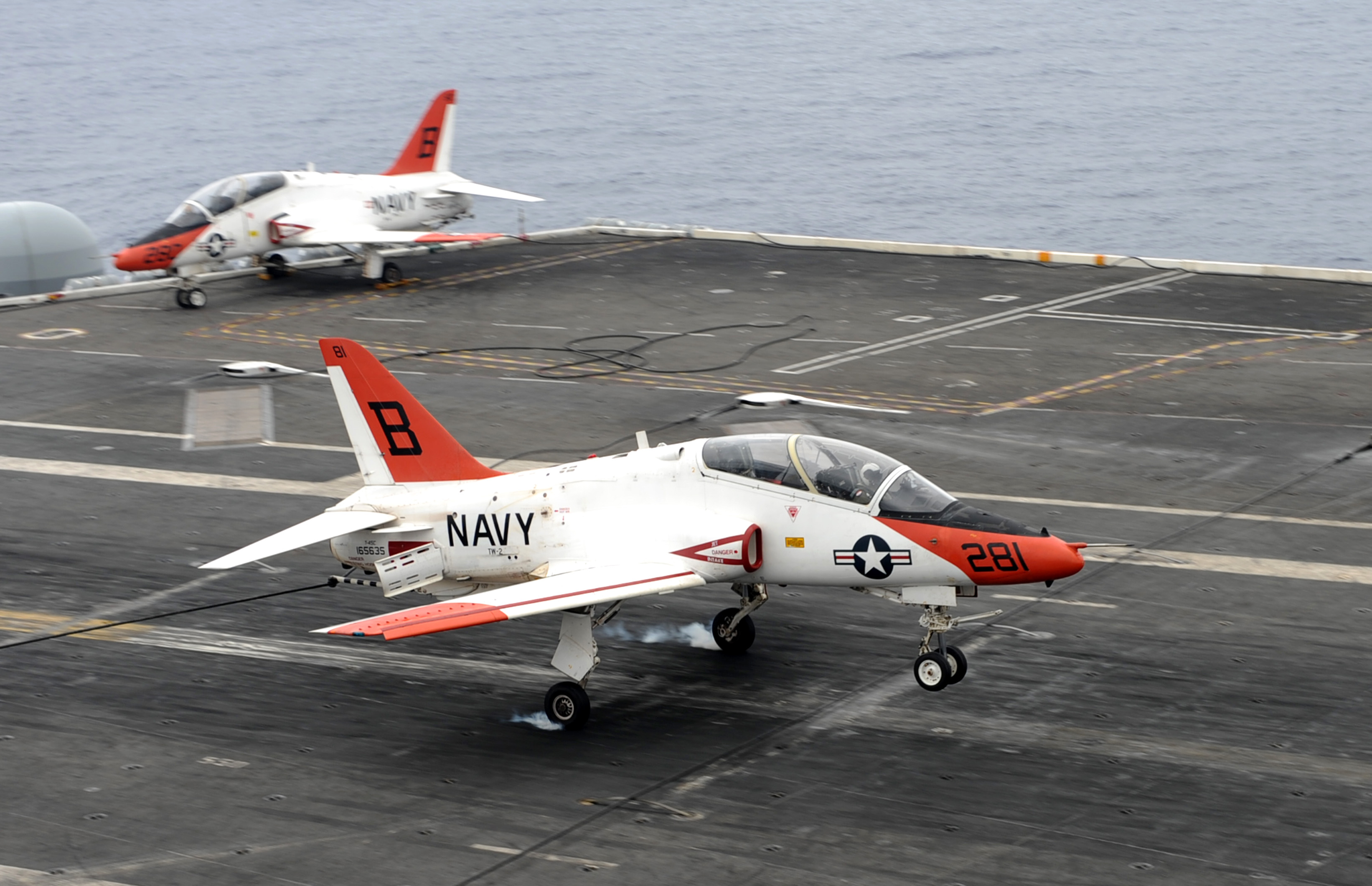 ATLANTIC OCEAN (Aug. 1, 2011) A T-45C Goshawk training aircraft assigned to Training Squadron (VT) 26 makes an arrested landing aboard the aircraft carrier USS Dwight D. Eisenhower (CVN-69). Dwight D. Eisenhower is underway training and preparing naval aviators for future carrier-based operations.